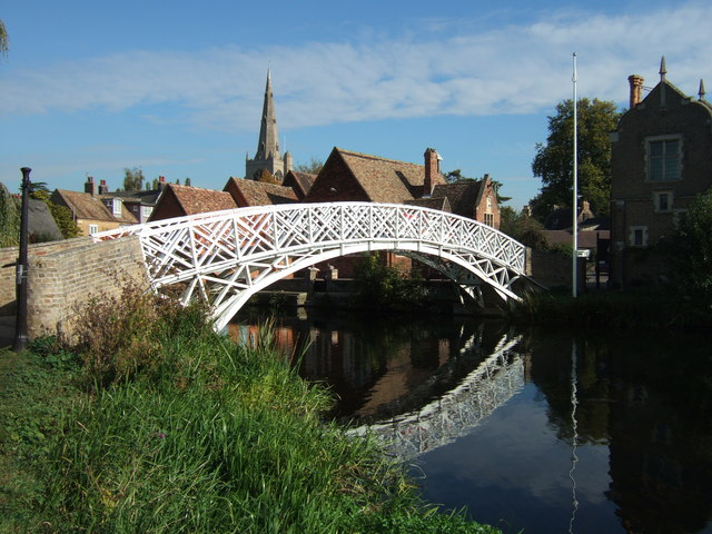 The Chinese bridge in Godmanchester, near to Godmanchester, Cambridgeshire, Great Britain.